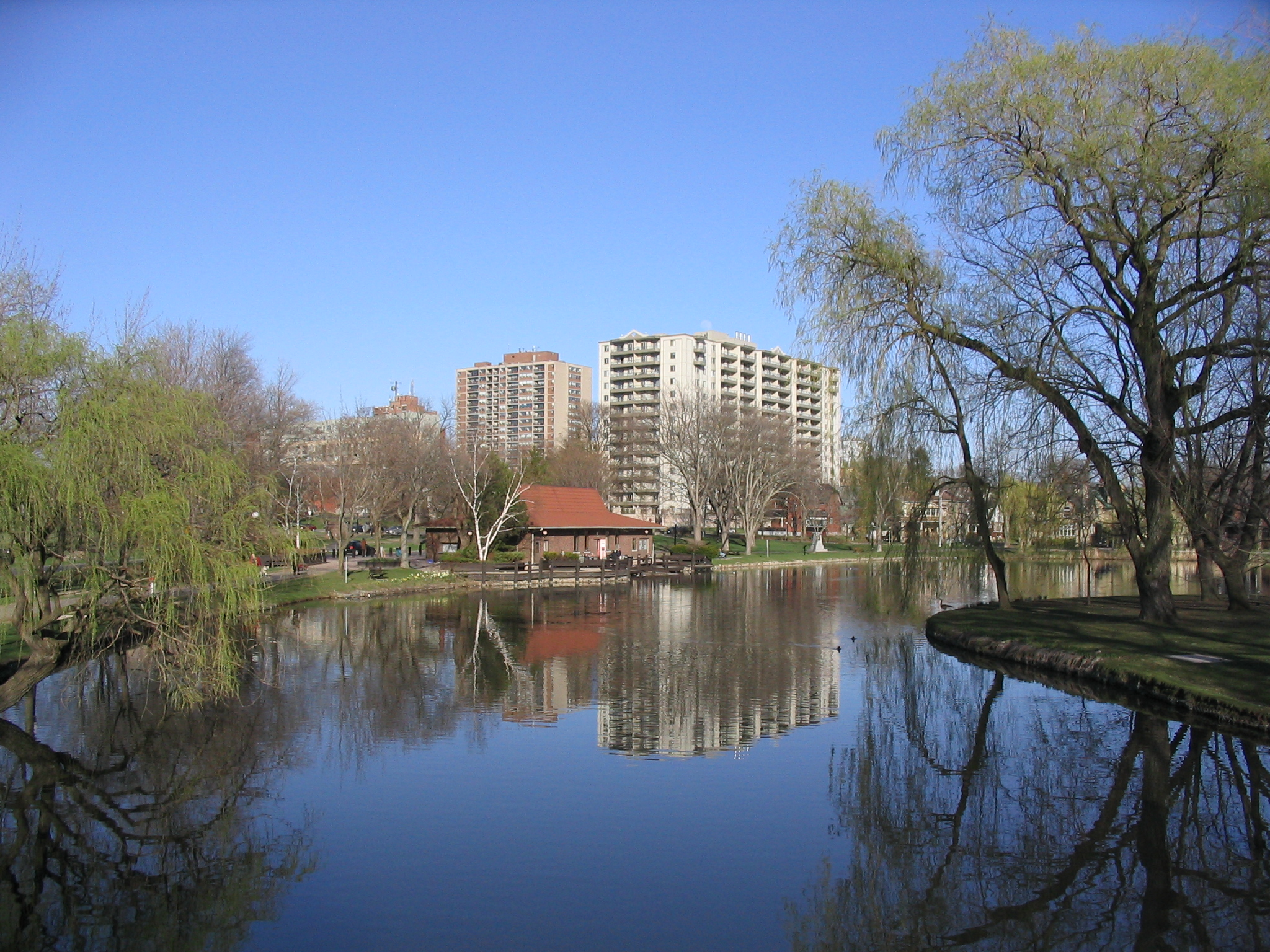 Kitchner Lake, Victoria Park.